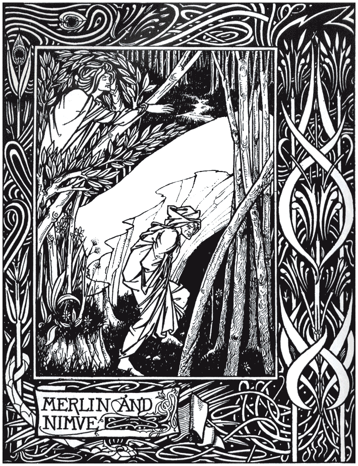 Illustration by Aubrey Beardsley (1872-1898) for Le Morte d'Arthur, book IV, chapter XVI - Publisher: J. M. Dent & Co., London, 1893-1894